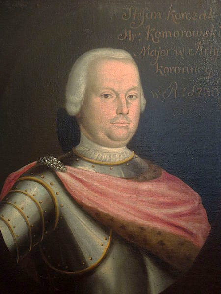 Unknown Painter (Poland) - Stefan Korczak Komorowski ca. 1730, oil on canvas